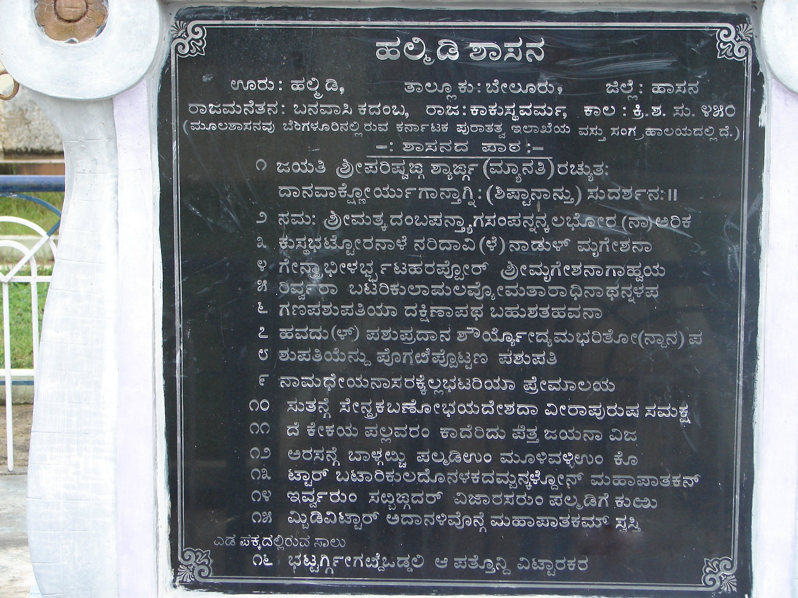 This photograph of the Halmidi inscription translated into modern Kannada script was taken by self (Dinesh Kannambadi) at Halmidi village, Hassan district, Karnataka state, India in August 2007